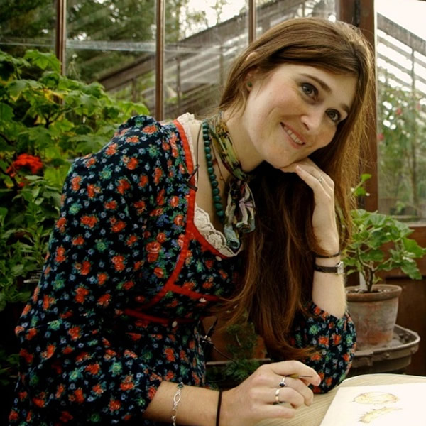 Jessica Shepherd; British botanical artist, publisher and botanist who practices under the alias of Inky Leaves.